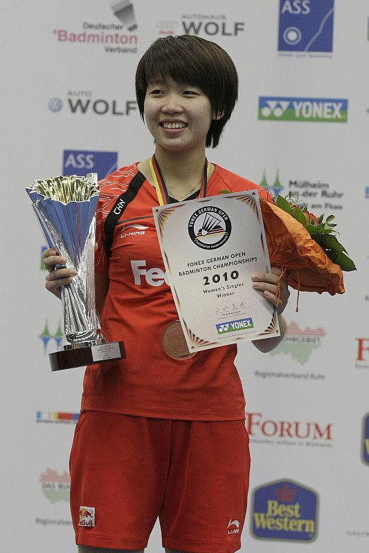 Xin Wang